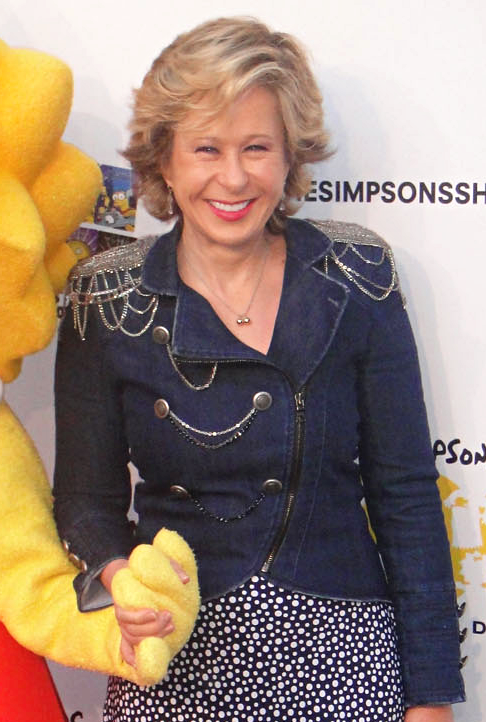 Yeardley Smith at the Simpsons 500th Episode Marathon